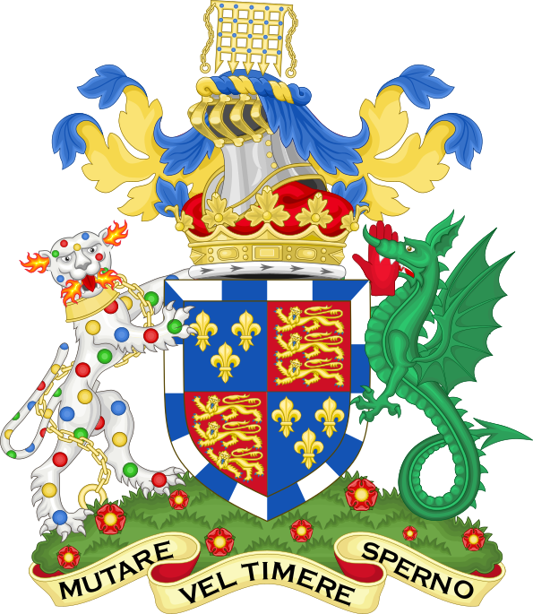 coat of arms of the dukes of Beaufort Arms. Quarterly, France and England, within a Bordure compone, argent and azure : anciently, Or, on a fess bordered gobone (or compone) argent and azure, France and England, quarterly. Crest. On a wreath, a portcullis, Or nailed Azure, chains pendant thereto of the first, which the family bears in memory of John of Gaunt's castle of Beaufort, before mentioned. Antiently the crest was a panther, Argent, diversely spotted, and gorged with a ducal coronet, Or. Supporters. On the dexter side a panther, Argent, spotted with various colours, fire issuing out of his mouth and ears proper, gorged with a collar, and chain pendant, Or: on the sinister, a wyvern, vert, holding in his mouth a sinister hand coupé at the wrist proper [alias gules]. Motto. Mutare vel timere sperno Collins Peerage of England